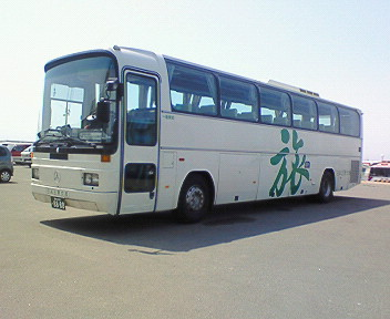 Mercedes-Benz O 303 RHD coach in Japan.